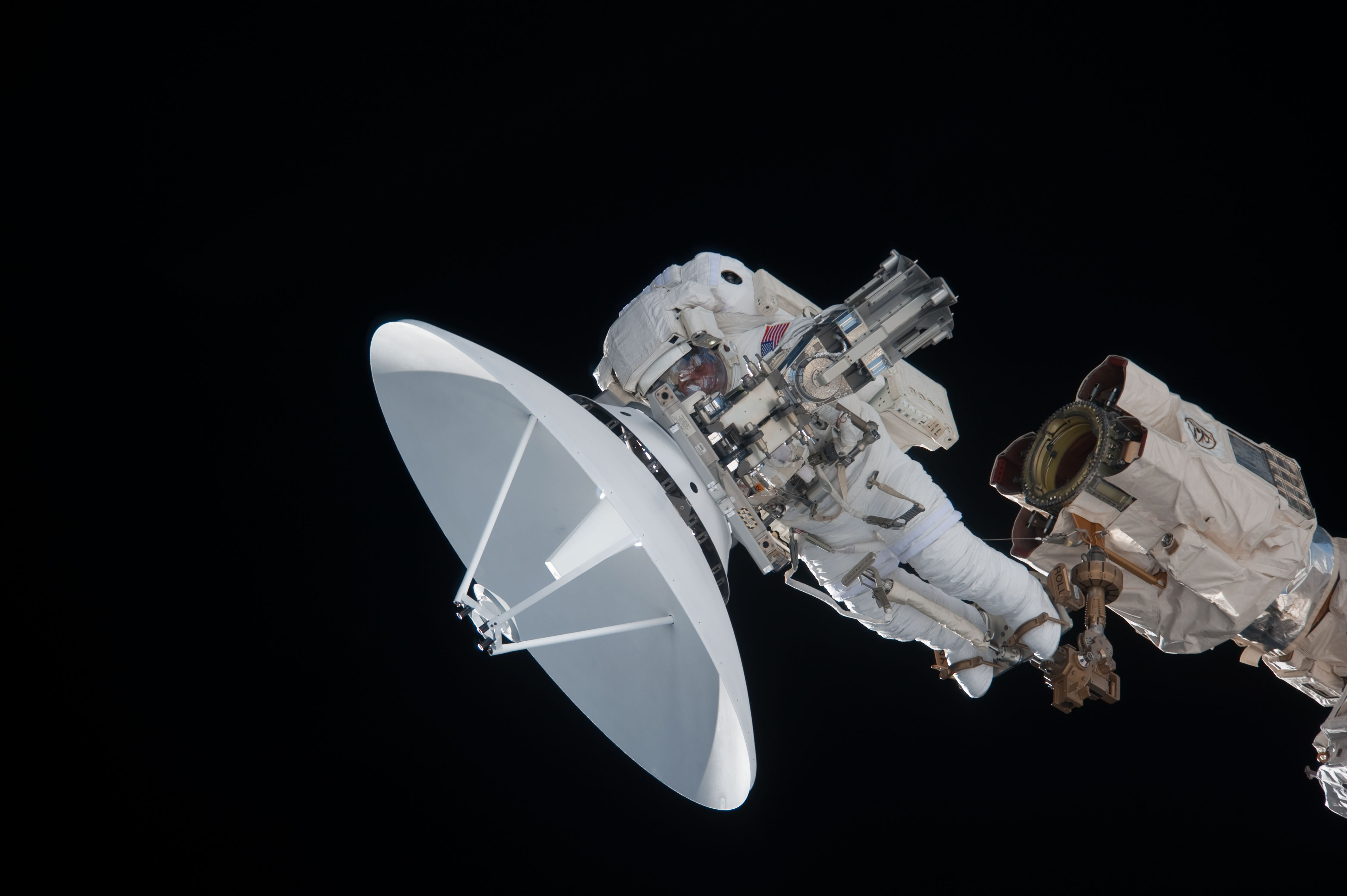 Anchored to a Canadarm2 mobile foot restraint, NASA astronaut Garrett Reisman, STS-132 mission specialist, participates in the mission's first session of extravehicular activity (EVA) as construction and maintenance continue on the International Space Station. During the seven-hour, 25-minute spacewalk, Reisman and NASA astronaut Steve Bowen (out of frame), mission specialist, loosened bolts holding six replacement batteries, installed a second antenna for high-speed Ku-band transmissions and adding a spare parts platform to Dextre, a two-armed extension for the station's robotic arm.